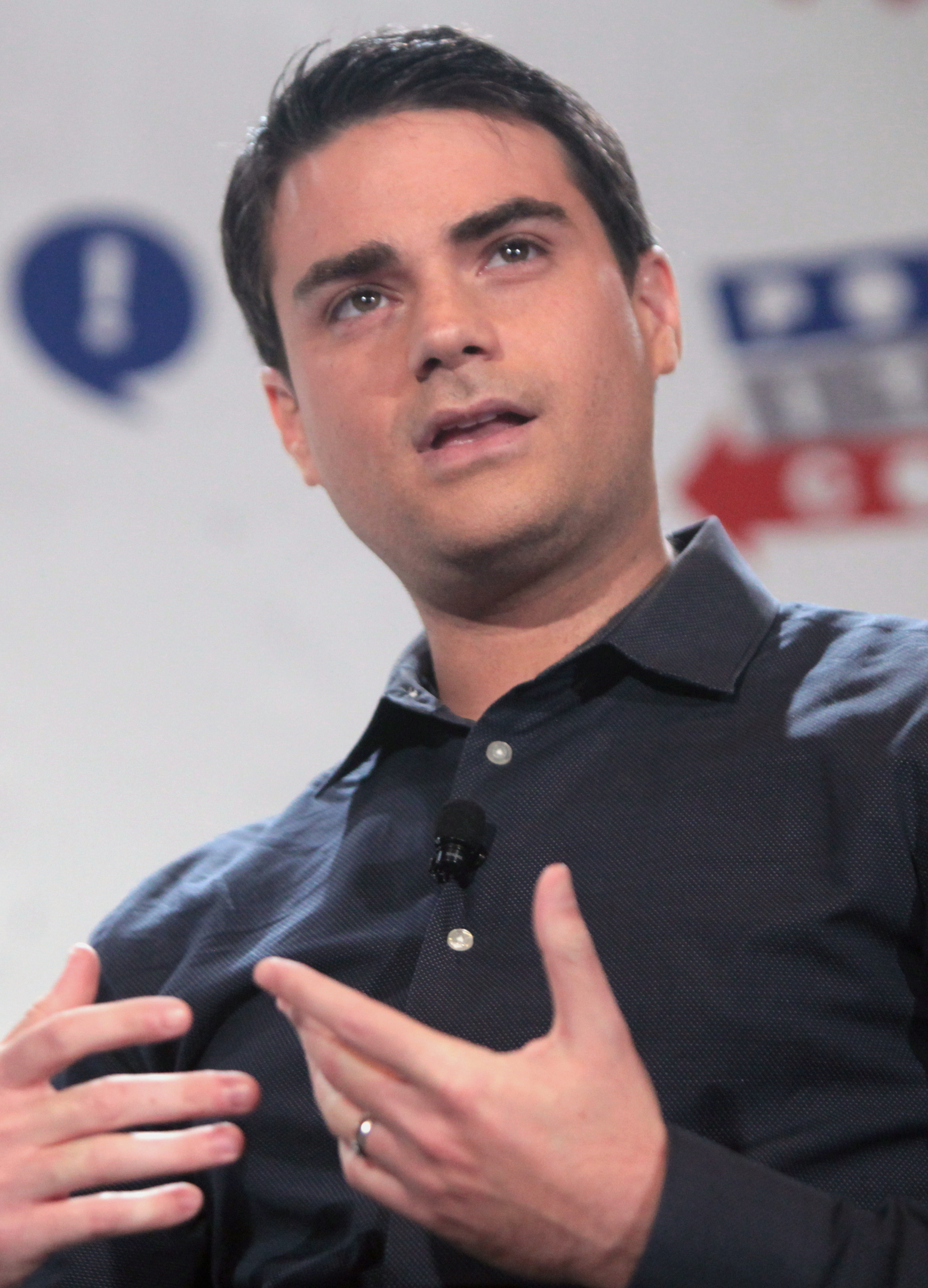 Ben Shapiro speaking at Politicon in Pasadena, California.